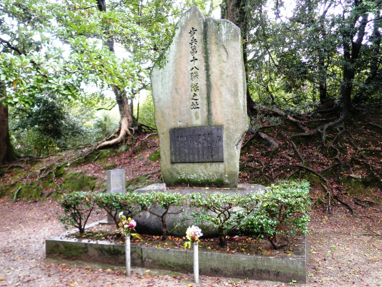 The Monument of Imperial Japanese Army 18th Infantry Regiment located in the Toyohashi Park.